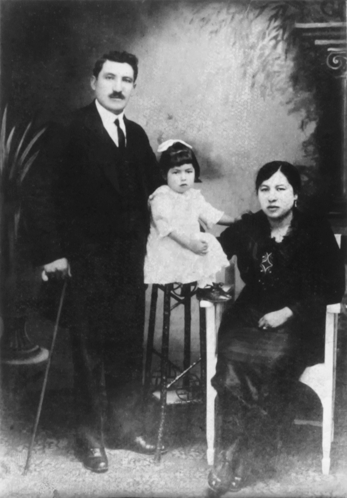 Elsa and her parents. Carlos Cladera Zelada, Elsa Cladera Encinas, Florinda Encinas San Martín in Oruro around 1927